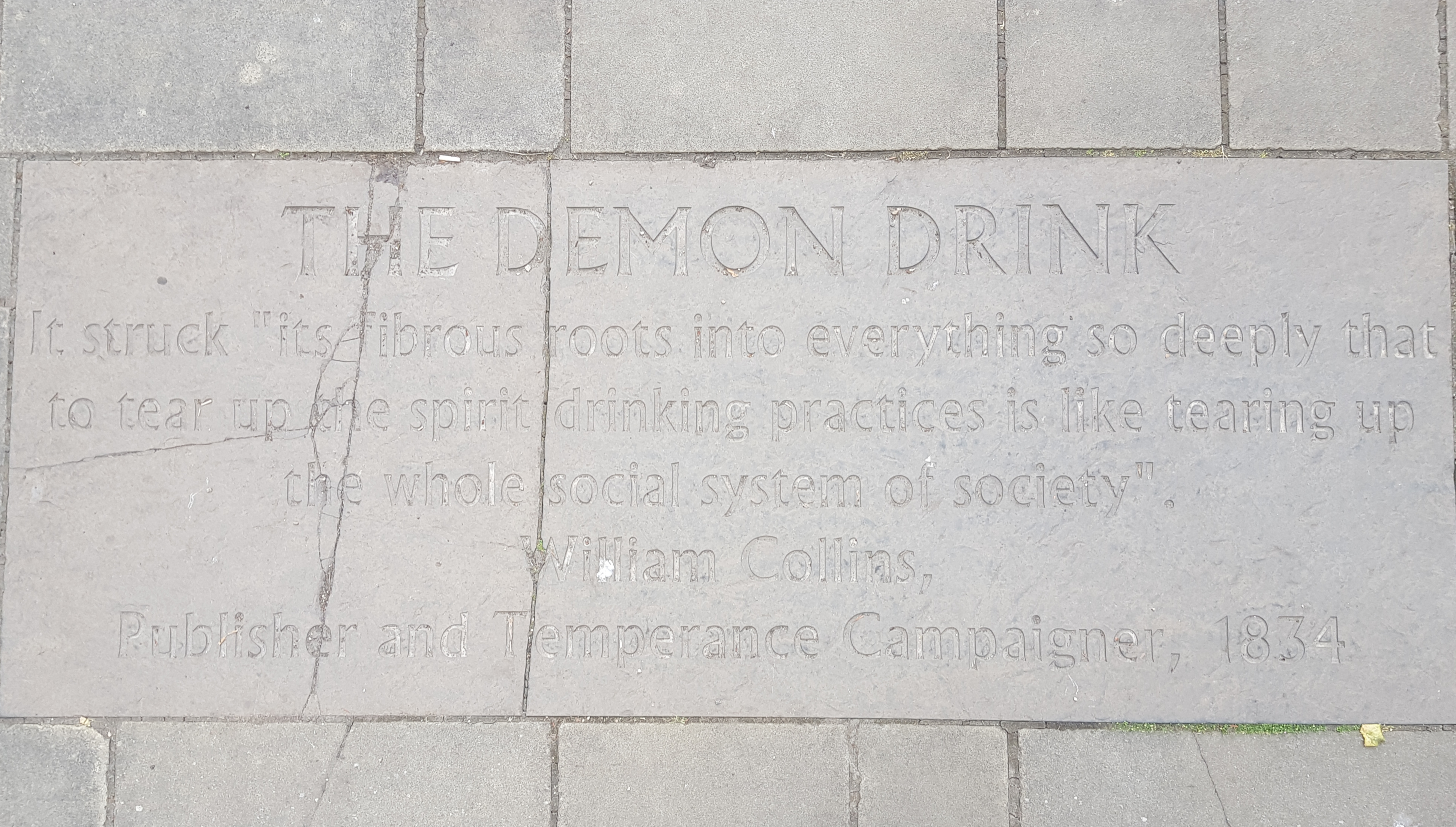 Plaque in Glasgow Green dedicated to Lord Provost William Collins, Glasgow temperance activist